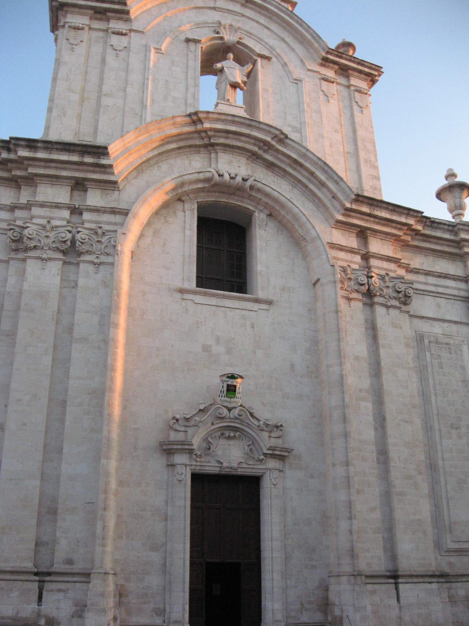 The new cathedral (duomo nuovo) of Molfetta